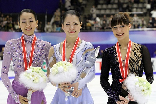 The ladies podium at the 2011 NHK Trophy. From left: Mao Asada (2nd), Akiko Suzuki (1st), Alena Leonova(3rd)